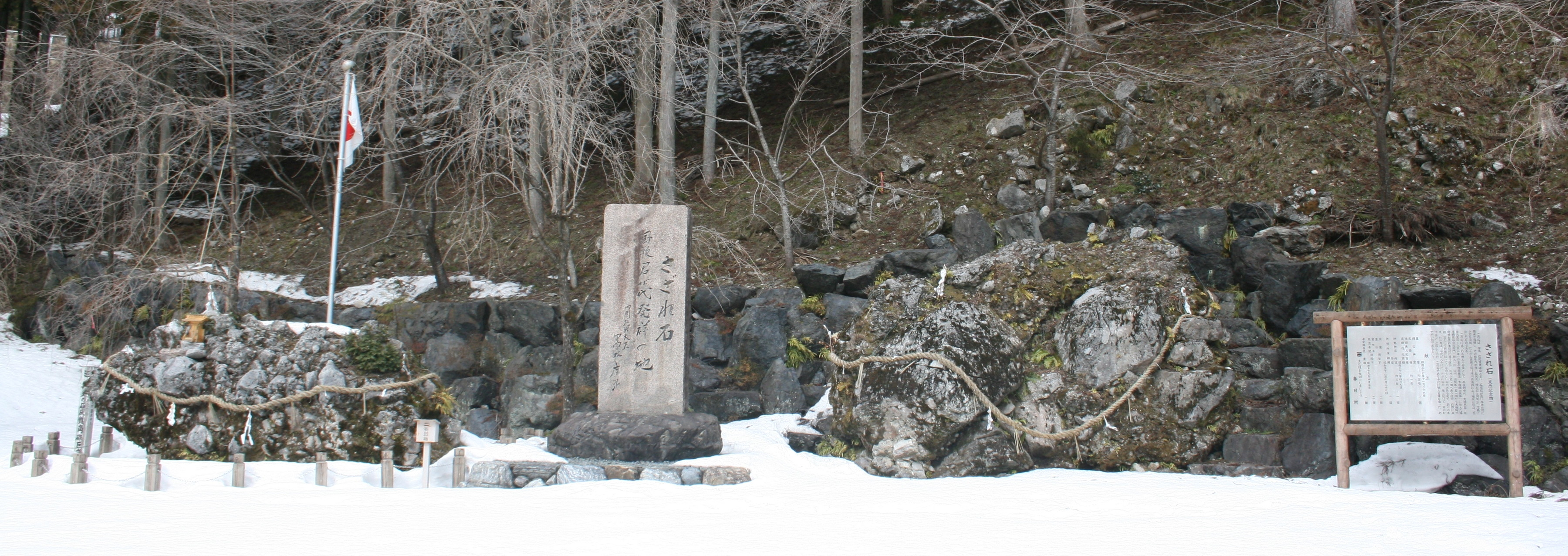 Limestone Conglomerate_park